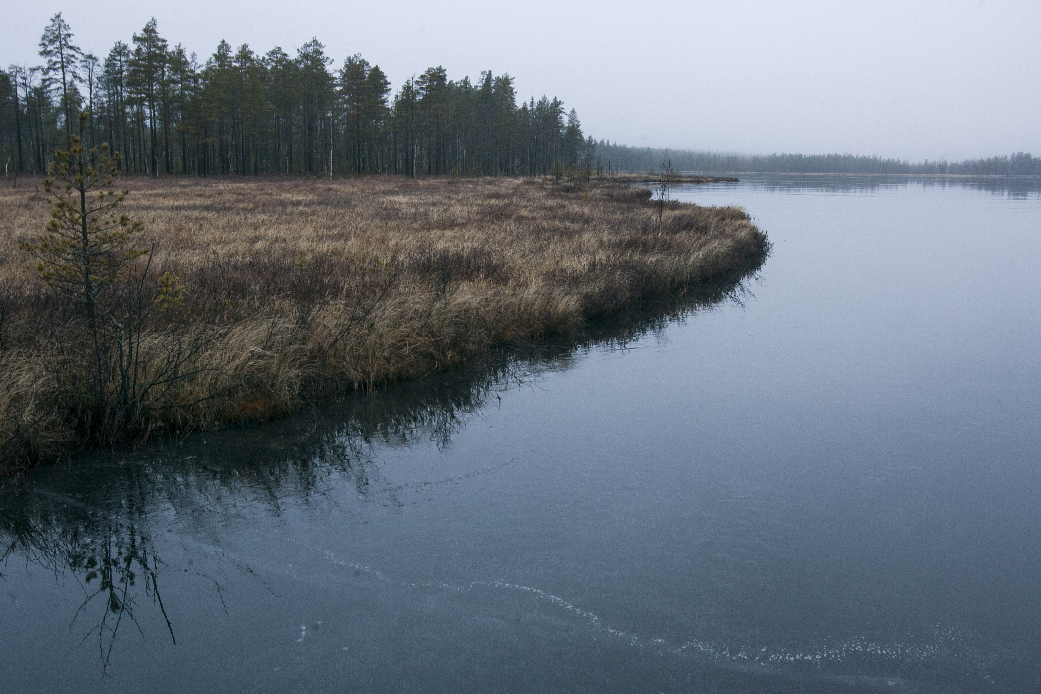 A winter view of Mittiholmsjön